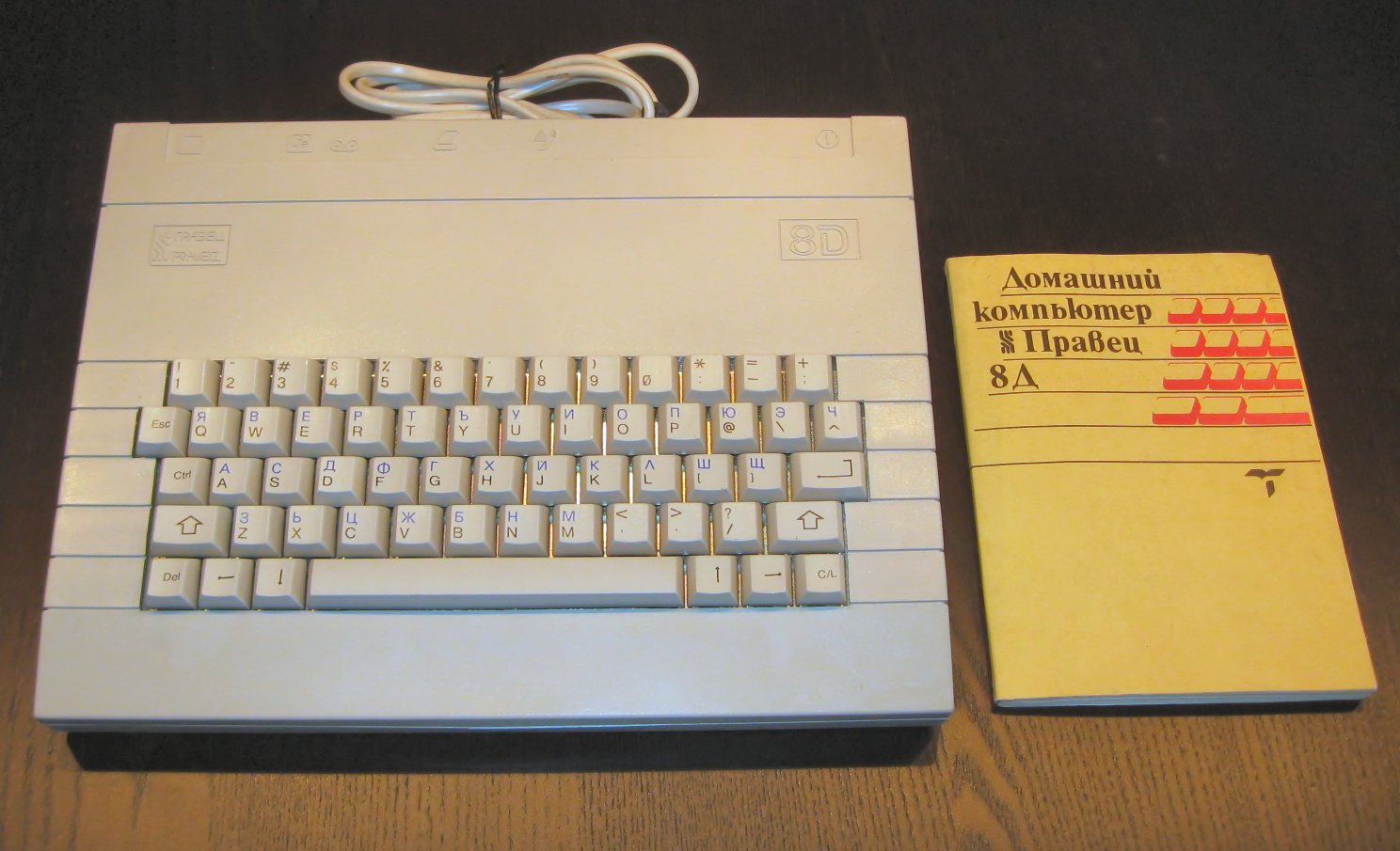 Photo of a Pravetz 8D computer and its user manual. This machine produced from 1985 to 1992 is a Bulgarian clone of the Oric Atmos.